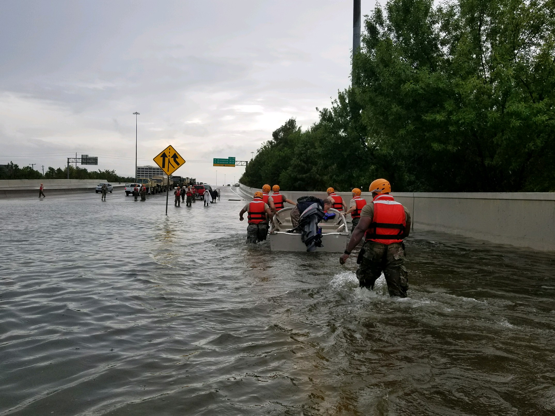 Texas National Guard soldiers arrive in Houston, Texas to aid citizens in heavily flooded areas from the storms of Hurricane Harvey. (Photos by Lt. Zachary West , 100th MPAD)